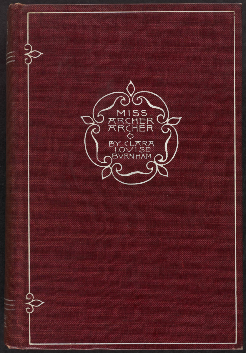 File name: 06_04_000173Title: BURNHAM(1897) Miss Archer ArcherDate issued: 1897Genre: Book coversNotes: Burnham, Clara Louise, 1854-1927 (Author)Collection: Sarah Wyman Whitman BindingsLocation: Boston Public Library, Special CollectionsRights: No known copyright restrictions.